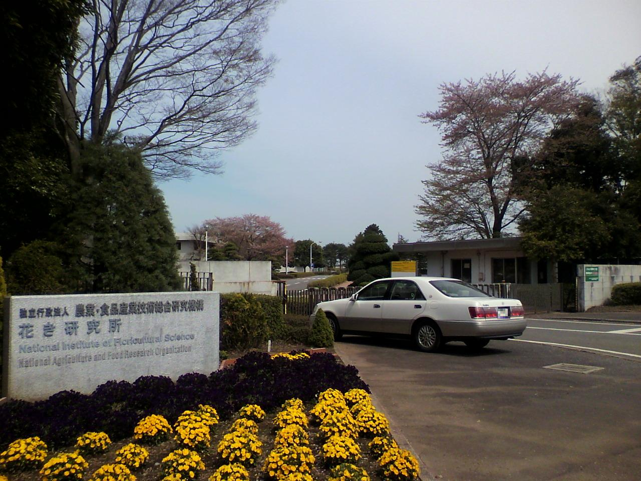 This is an entrance of National Institute of Floricultural Science (NIFS, kakiken) in Japan. This institute is in same place of National Institute of Fruit Tree Science (NIFTS).